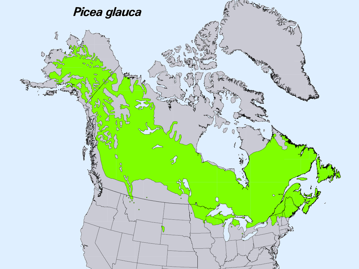 Range map of white spruce (Picea glauca)